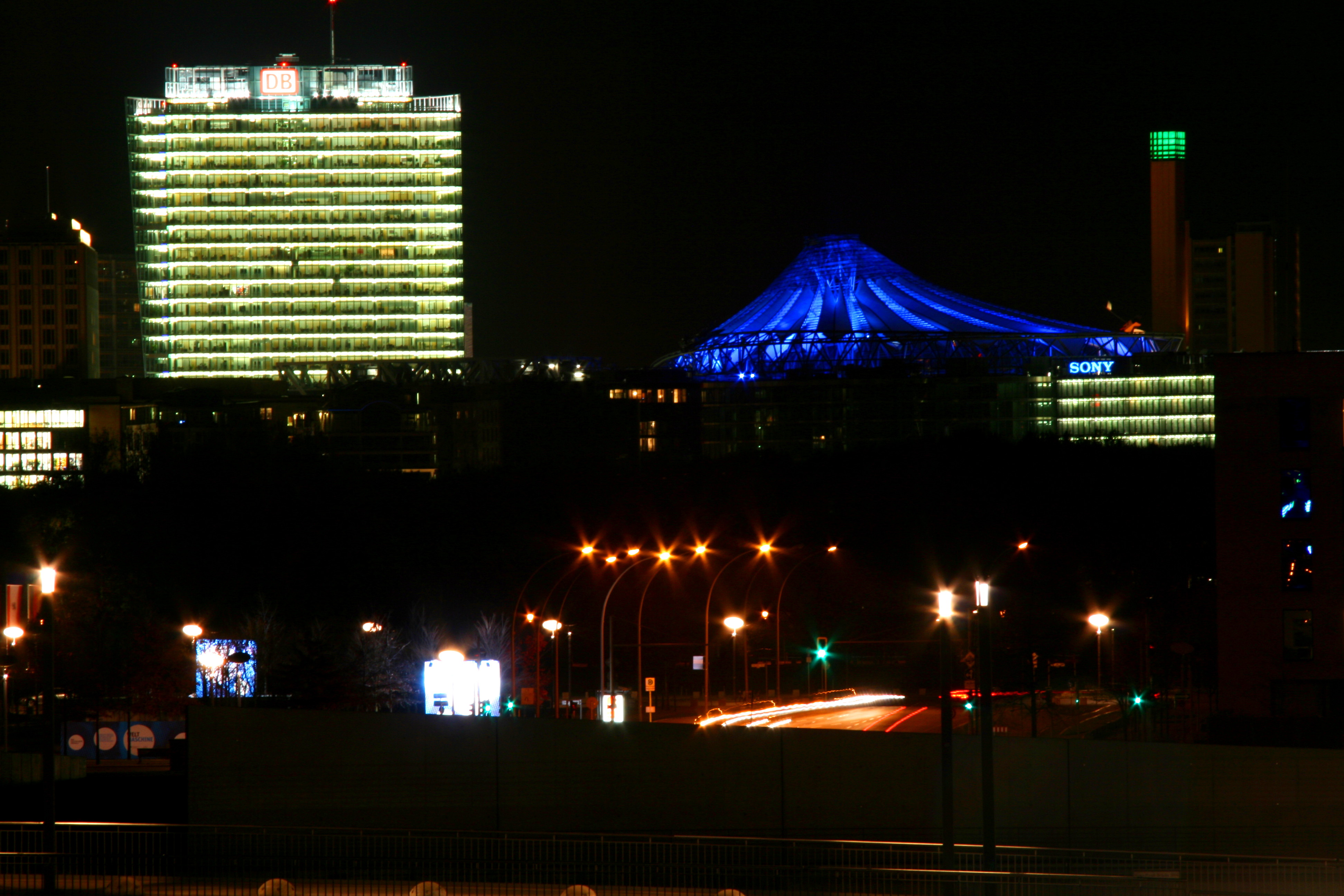 Potsdamer Platz in Berlin at Night (seen from north)